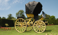 Carriage in the Mossman Carriage Collection which is held at Stockwood Park, Luton, Bedfordshire.